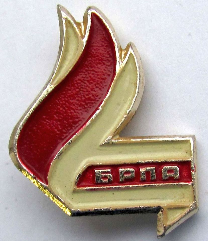 Badges "Belarusian Republican Youth Union", 1992-1995, Flag of Belarus (white-red-white)